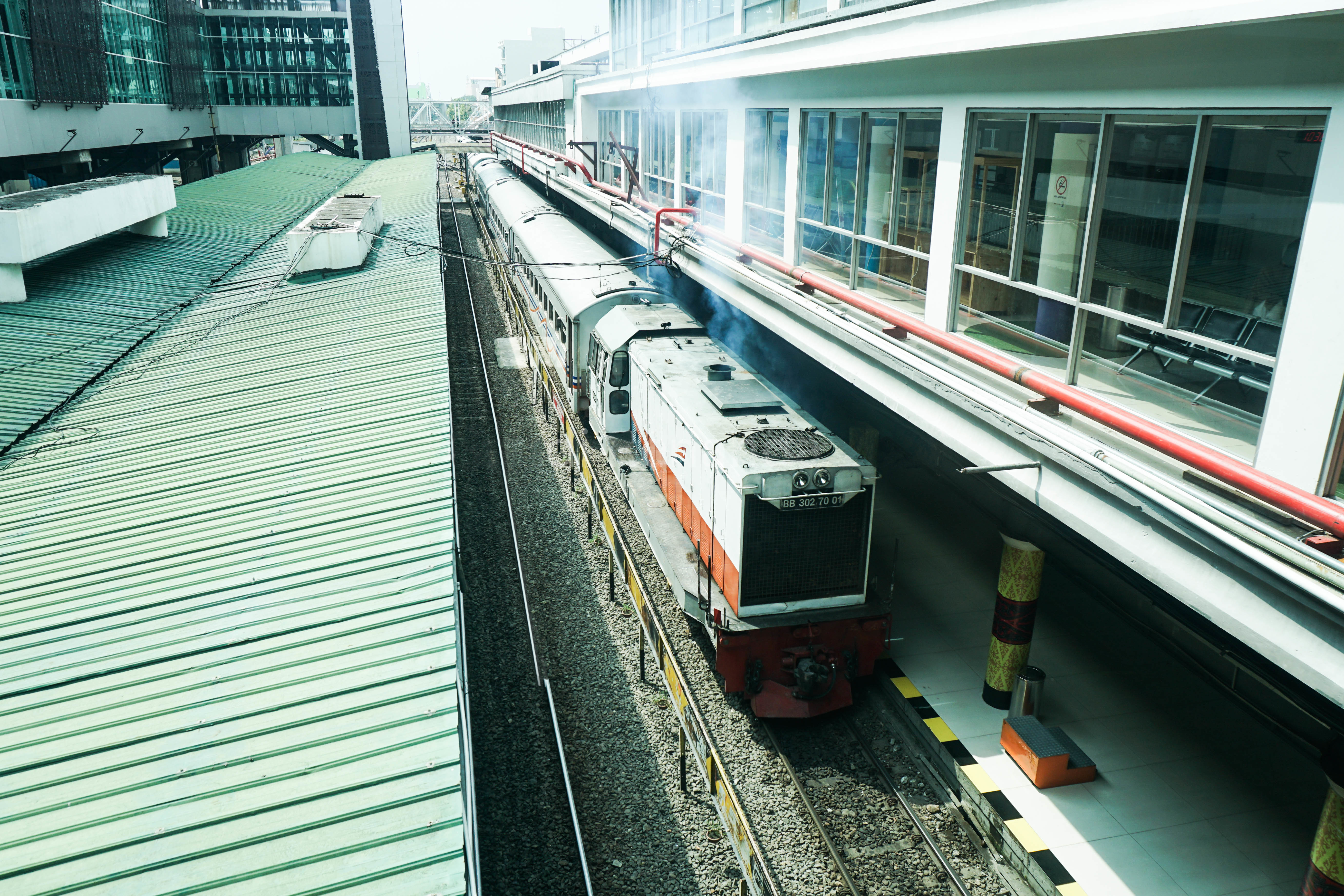 BB 302 70 01 shunting Putri Deli at Medan